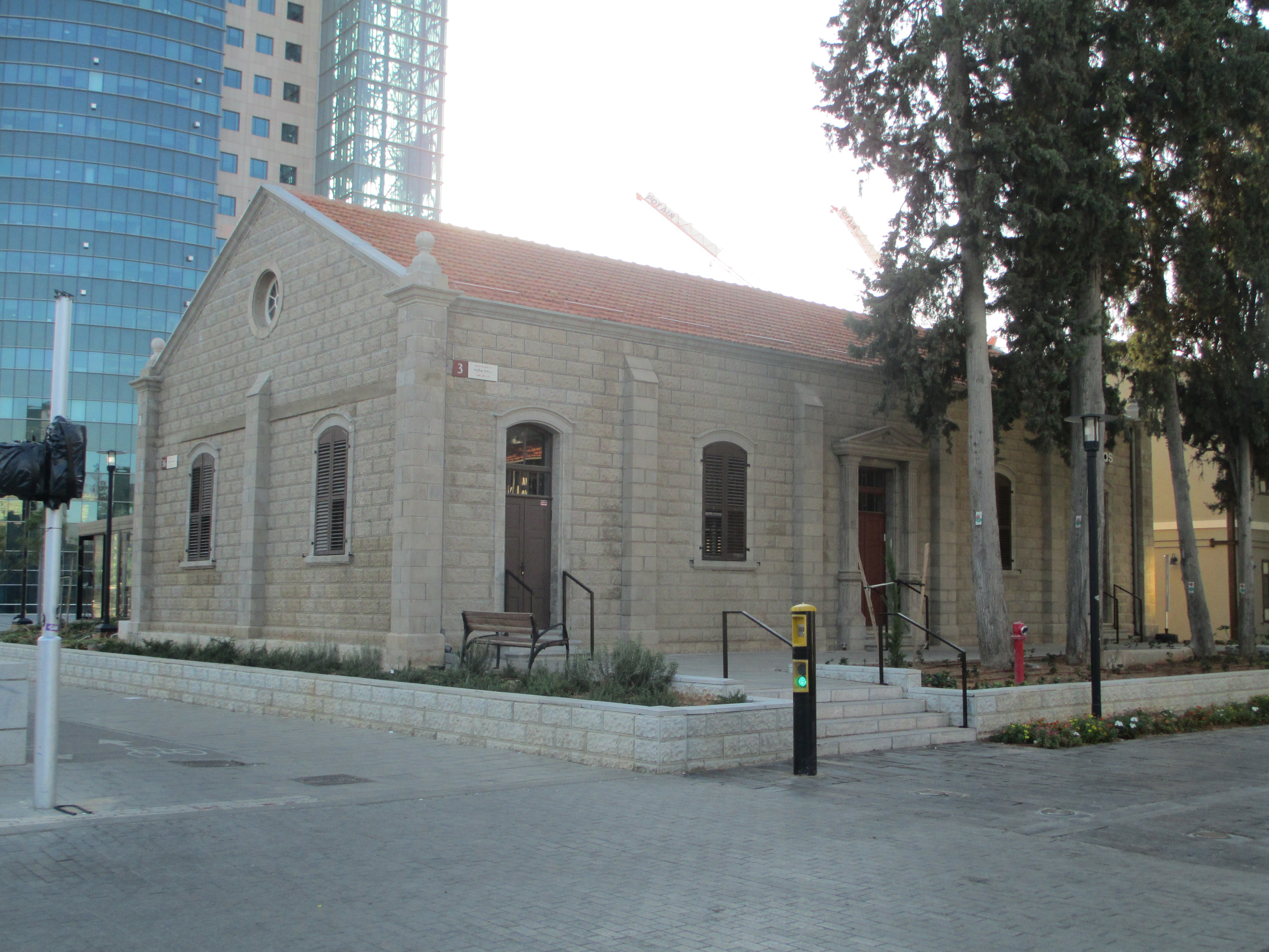 Sarona, Tel Aviv